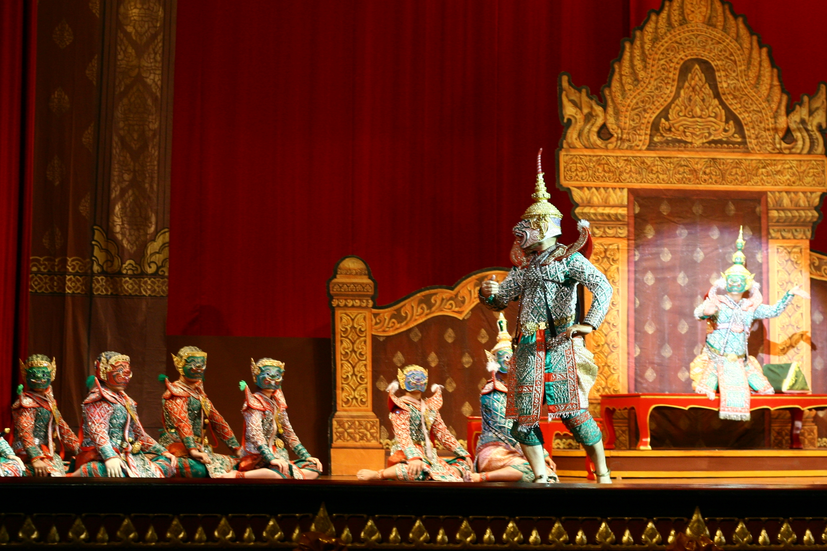 Khon performance at Thammasat University Main Auditorium, Tha Phrachan Campus, Bangkok, Thailand